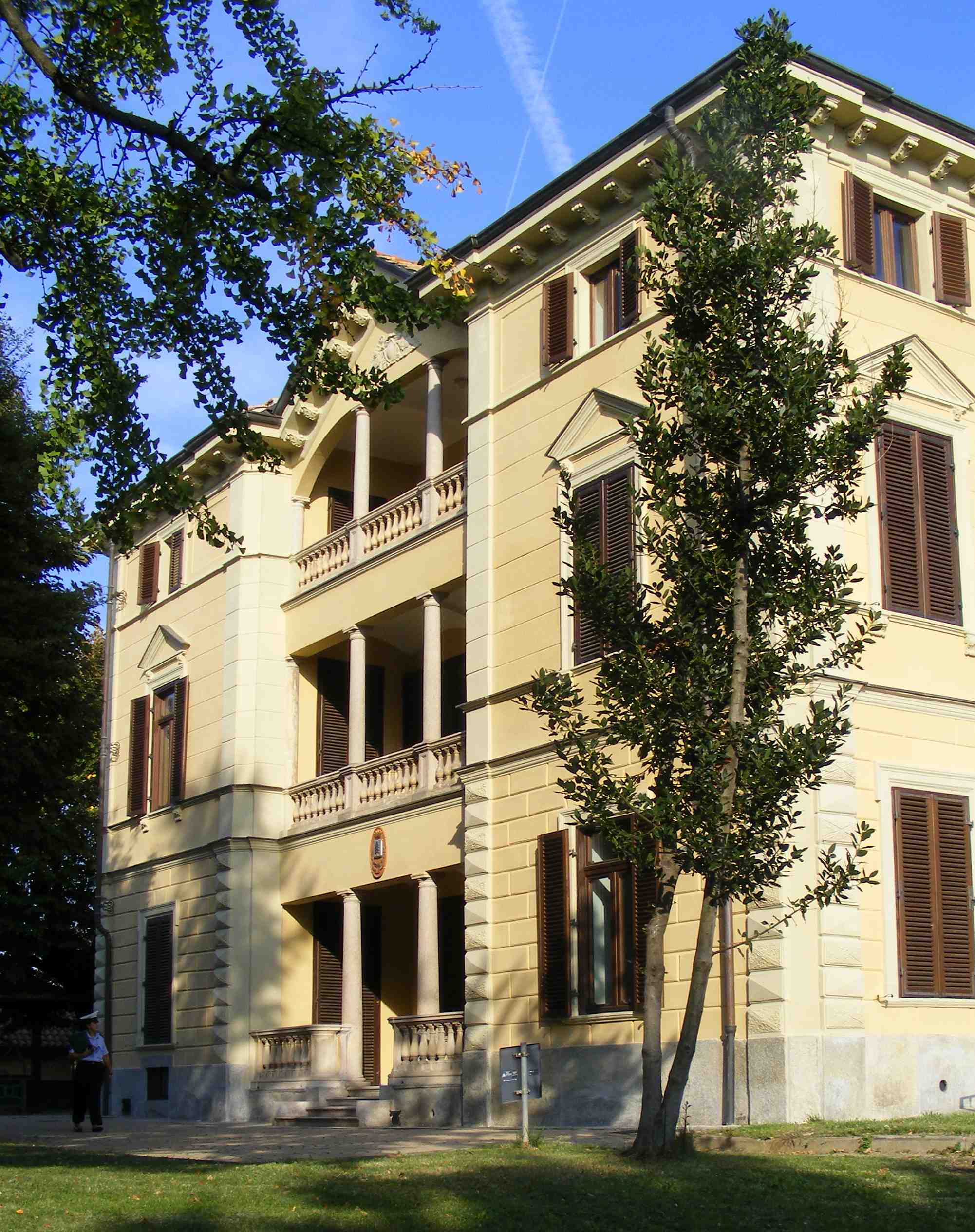 Pecetto (TO): town hall